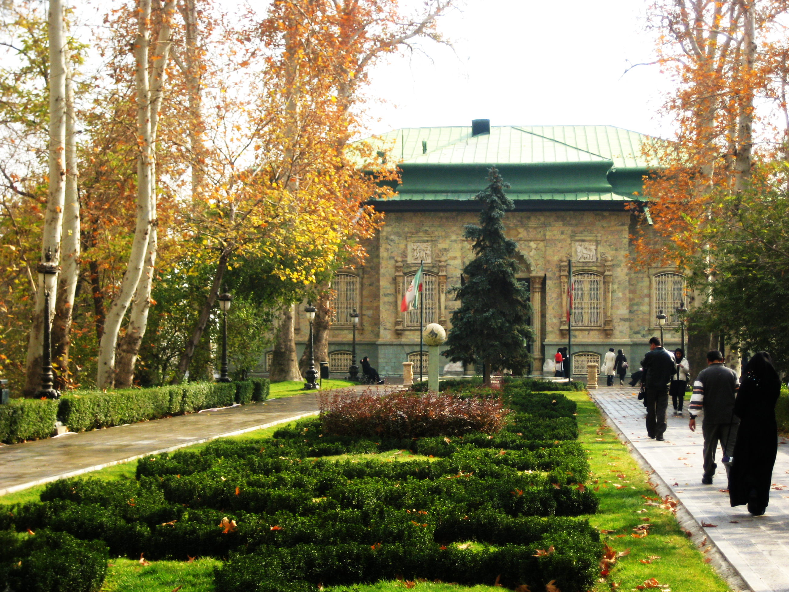 Sadabad tehran